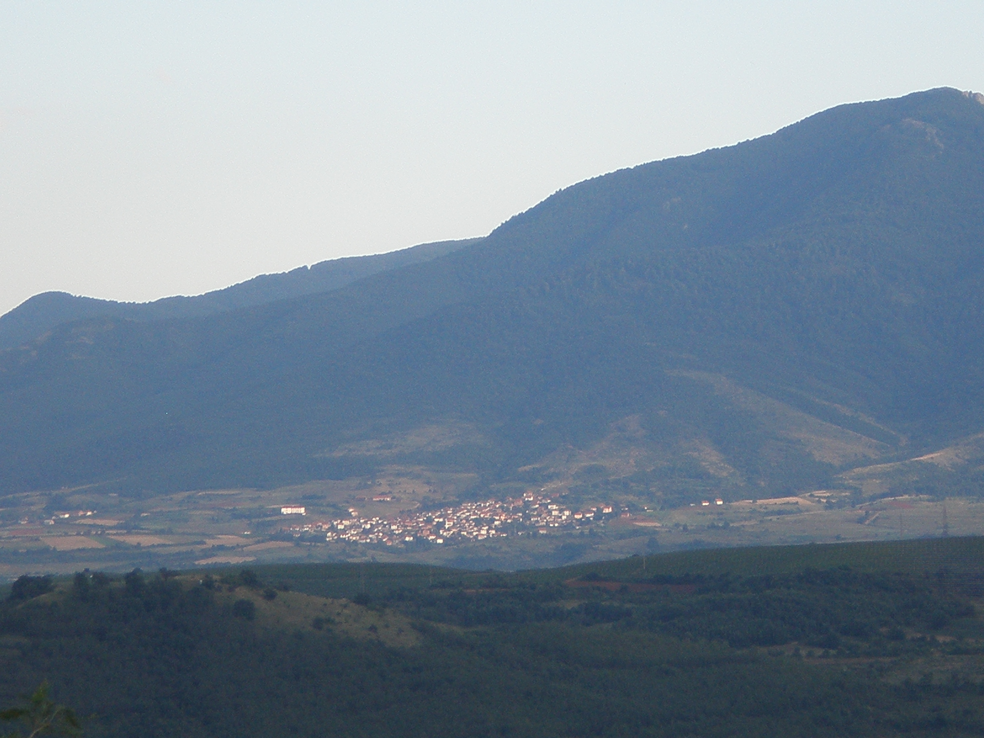 View of the village of Dolno Kolicani from Markovo Kruvce on Vodno Mountain, Macedonia